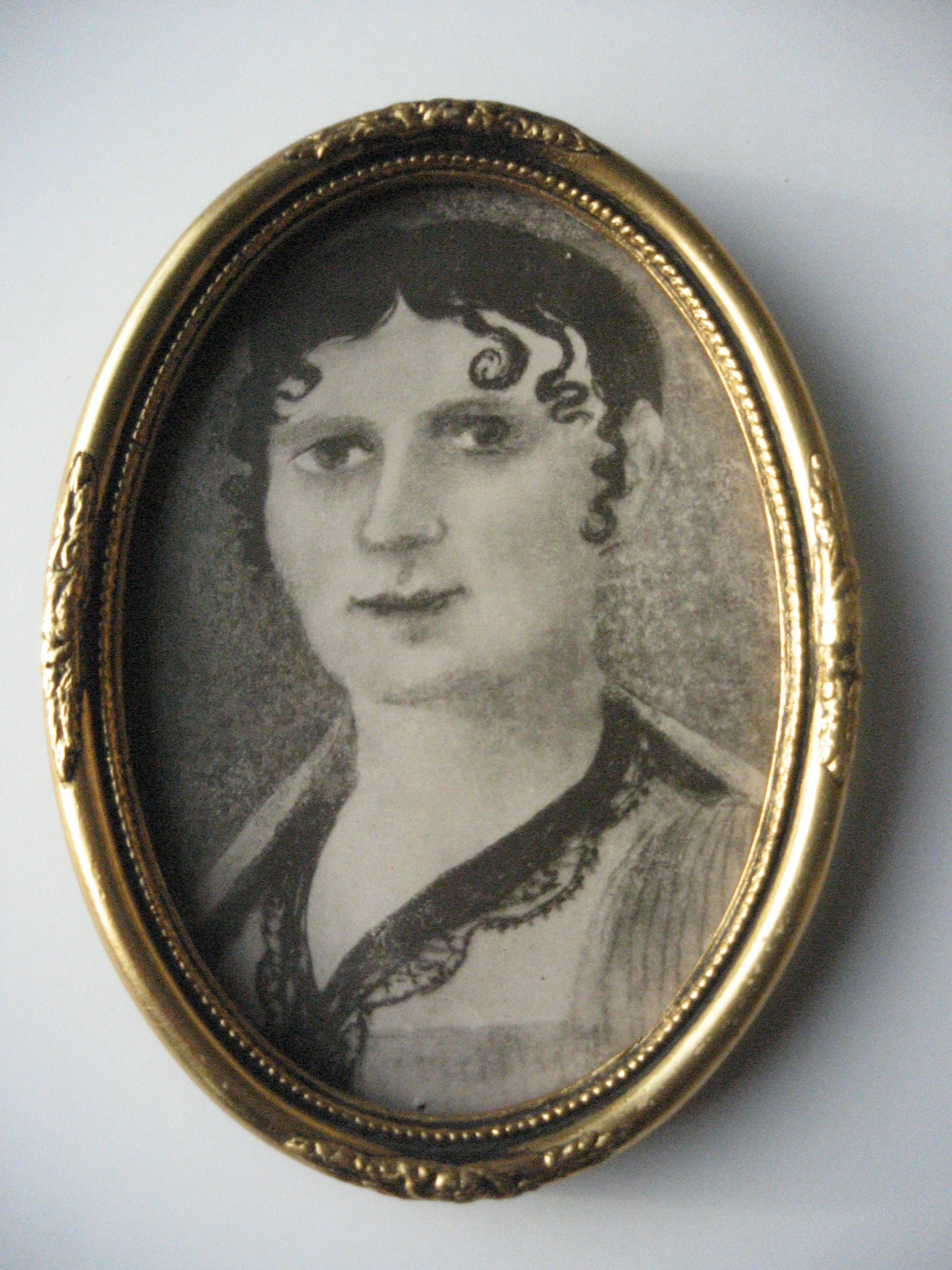 Portrait of Randi Solem by un unknown artist, an important Norwegian female lay preacher, follower of Hans Nielsen Hauge and N.F.S. Grundtvig